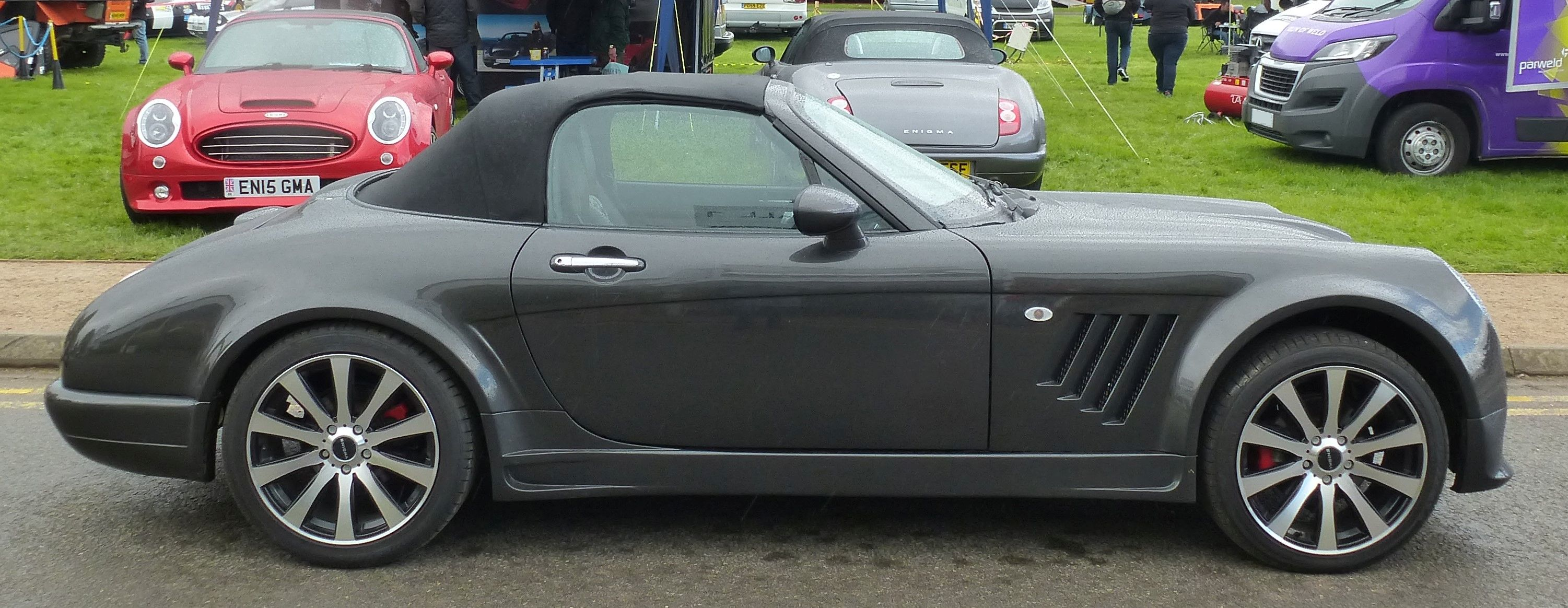 Healy Enigma